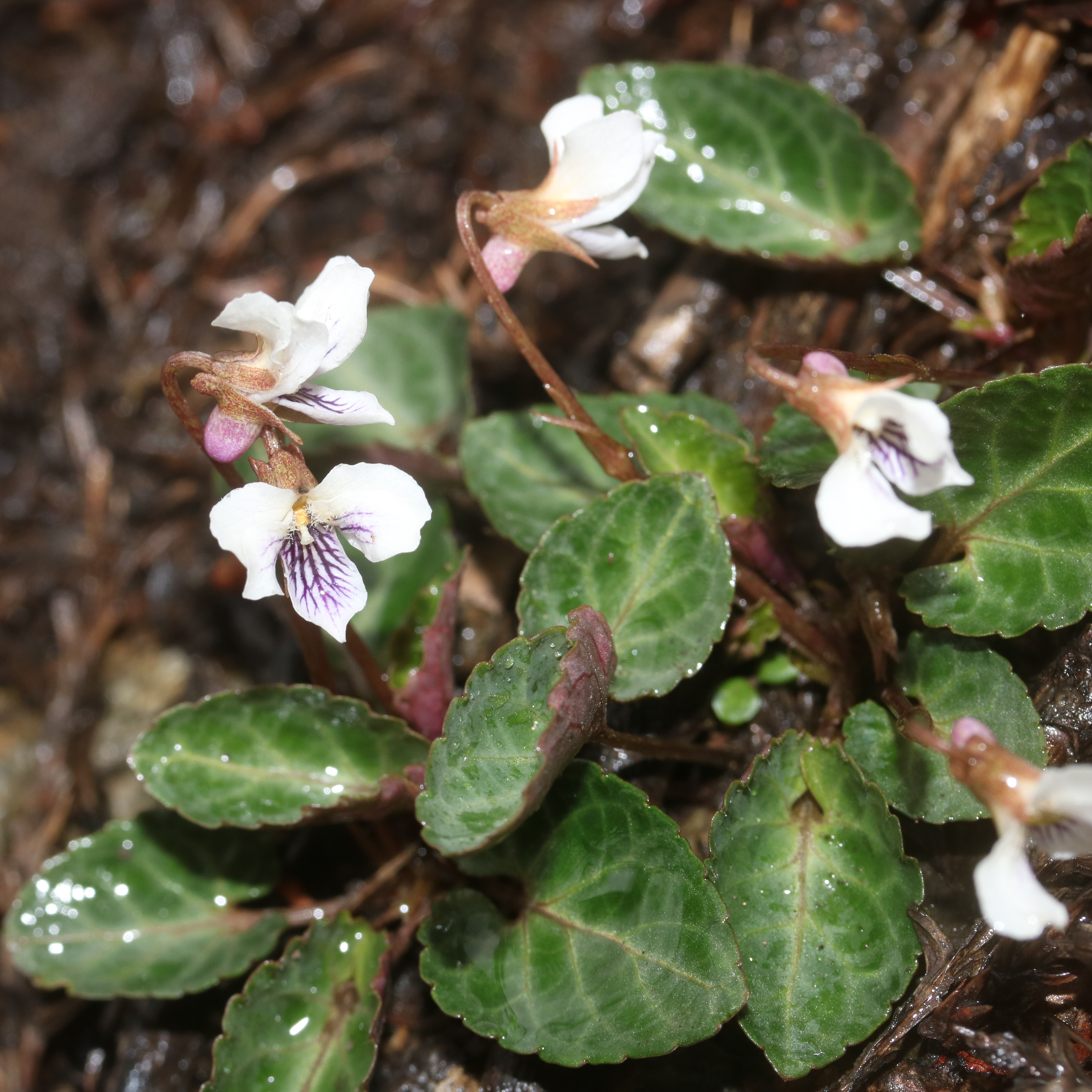 Viola sieboldii in Suzuka Mountains, Inabe, Mie Prefecture, Japan.